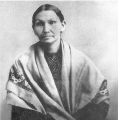 Electa Quinney (1798-1885), Wisconsin Mohican schoolteacher.